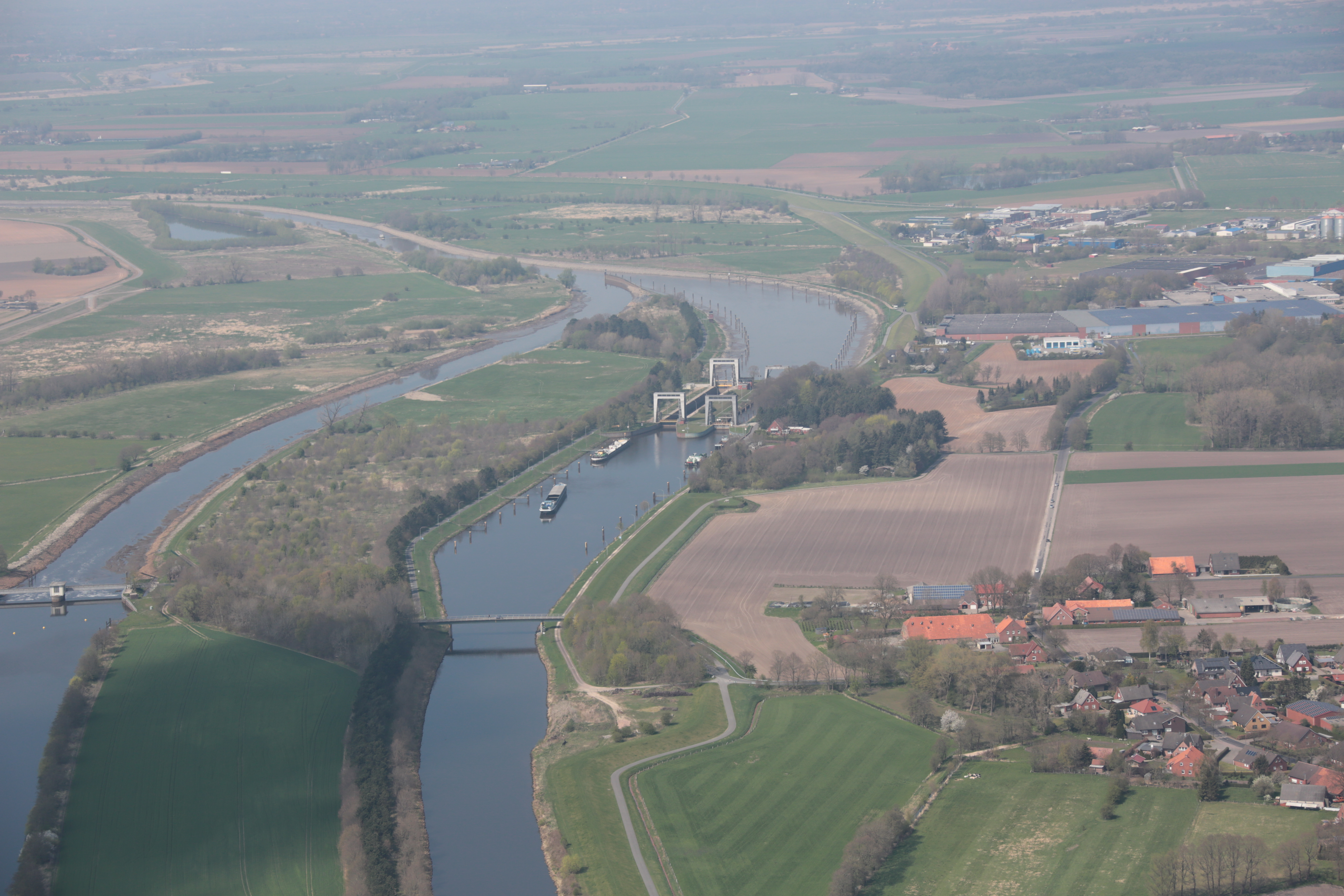 Fotoflug von Nordholz-Spieka nach Oldenburg und Papenburg This photo was taken by Alchemist-hp. If you use one of my photos, an email (account needed) or a message or direct to: my email account would be greatly appreciated. Please note the license terms. Other licensing terms can get discussed, too. This file is copyrighted and has been released under a license which is incompatible with Facebook's licensing terms. It is not permitted to upload this file to Facebook.